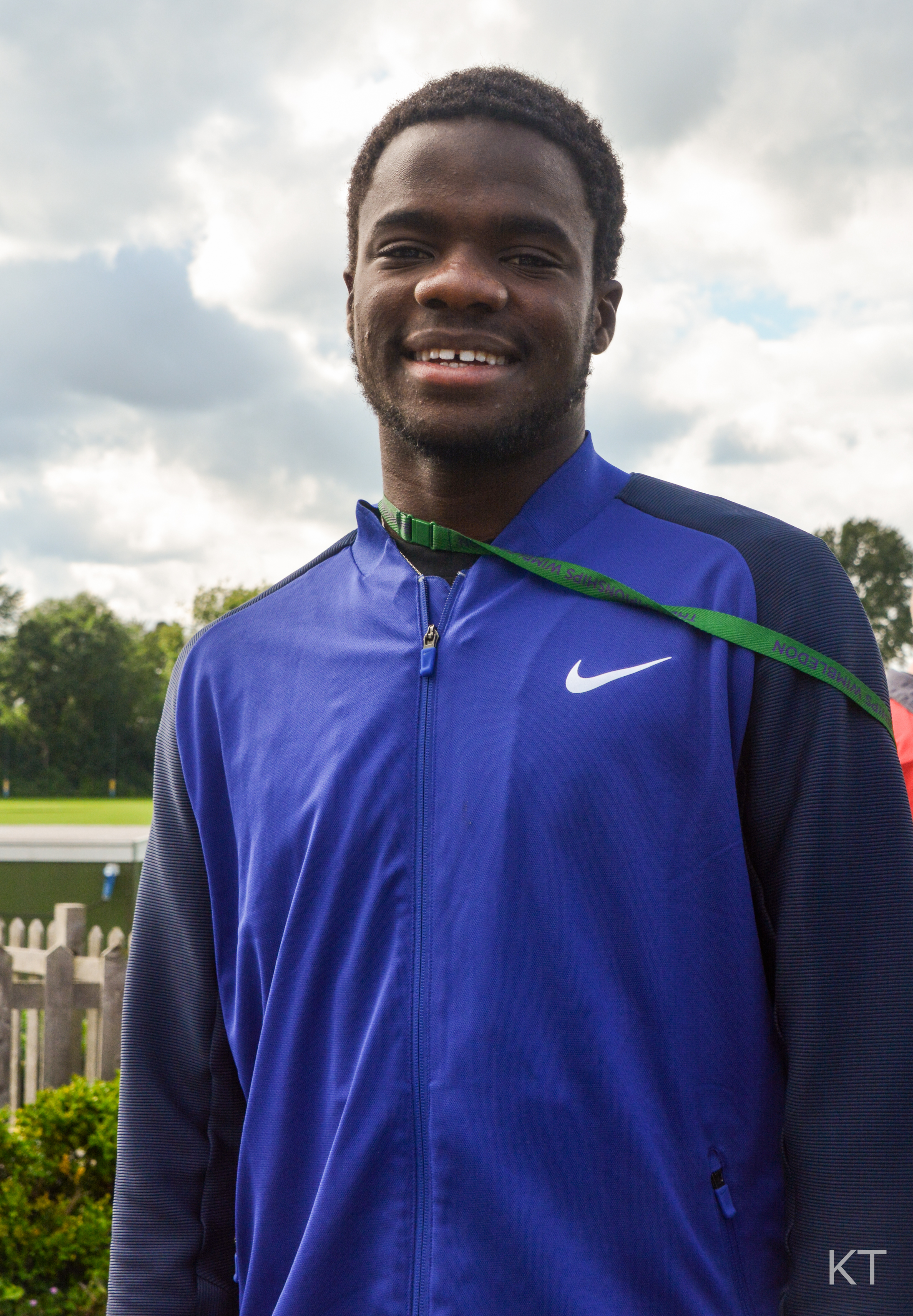 Day 1 of Wimbledon qualifying 2016.